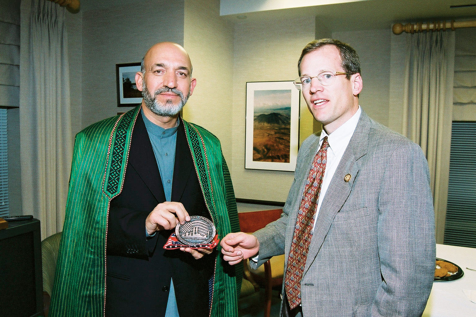 Afghan Interim Chairman Hamid Karzai meets Congressman Jack Kingston (R - Georgia) at a USAID ceremony announcing the first U.S. funded programs for Afghanistan reconstruction. Congressman Kingston presented Chairman Karzai with a commemorative medallion of the September 11th terrorist attacks. The medallion was forged from steel salvaged from the World Trade Center site.